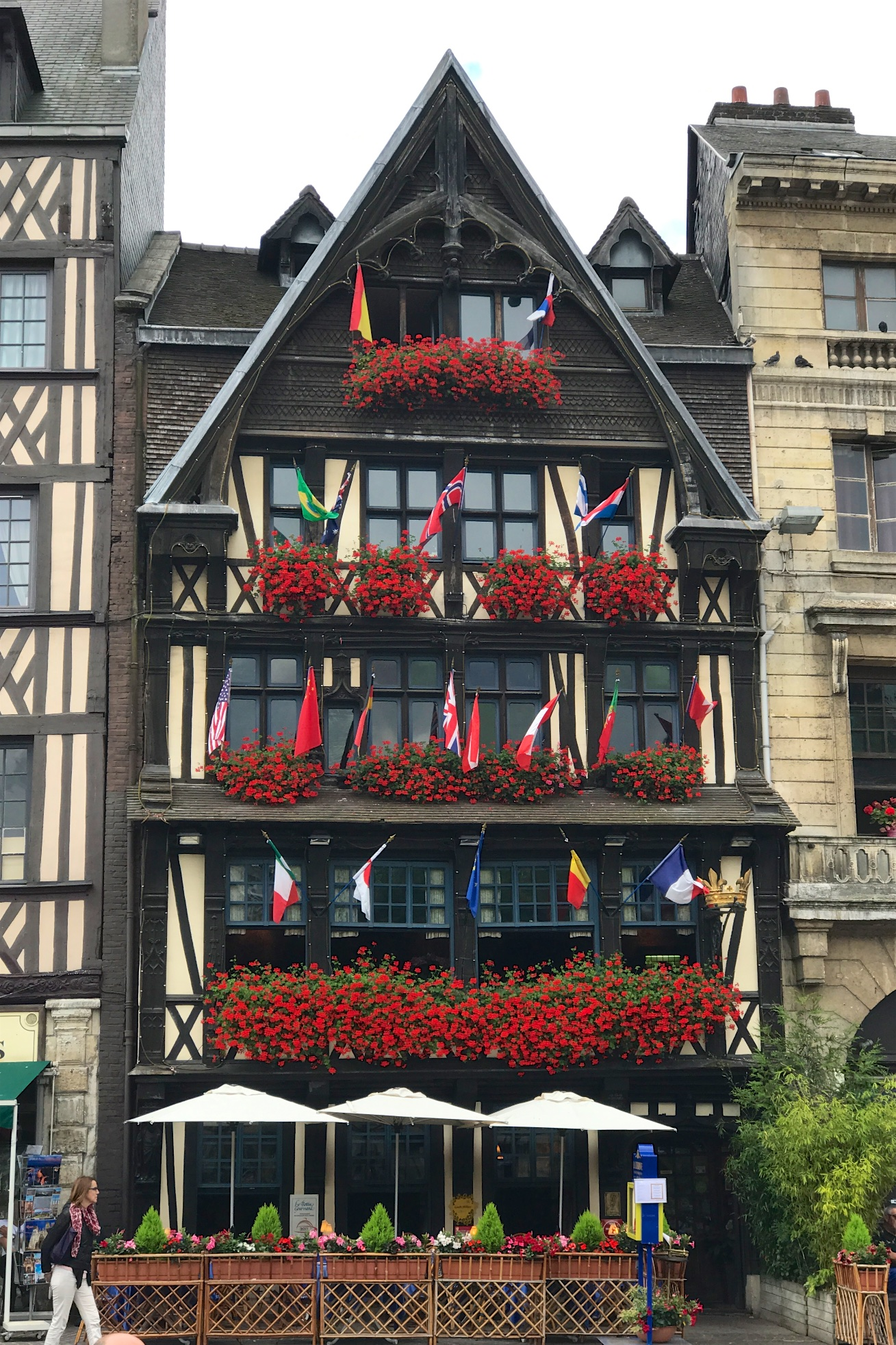 La Couronne, at 31 Place du Vieux-Marche, Rouen.